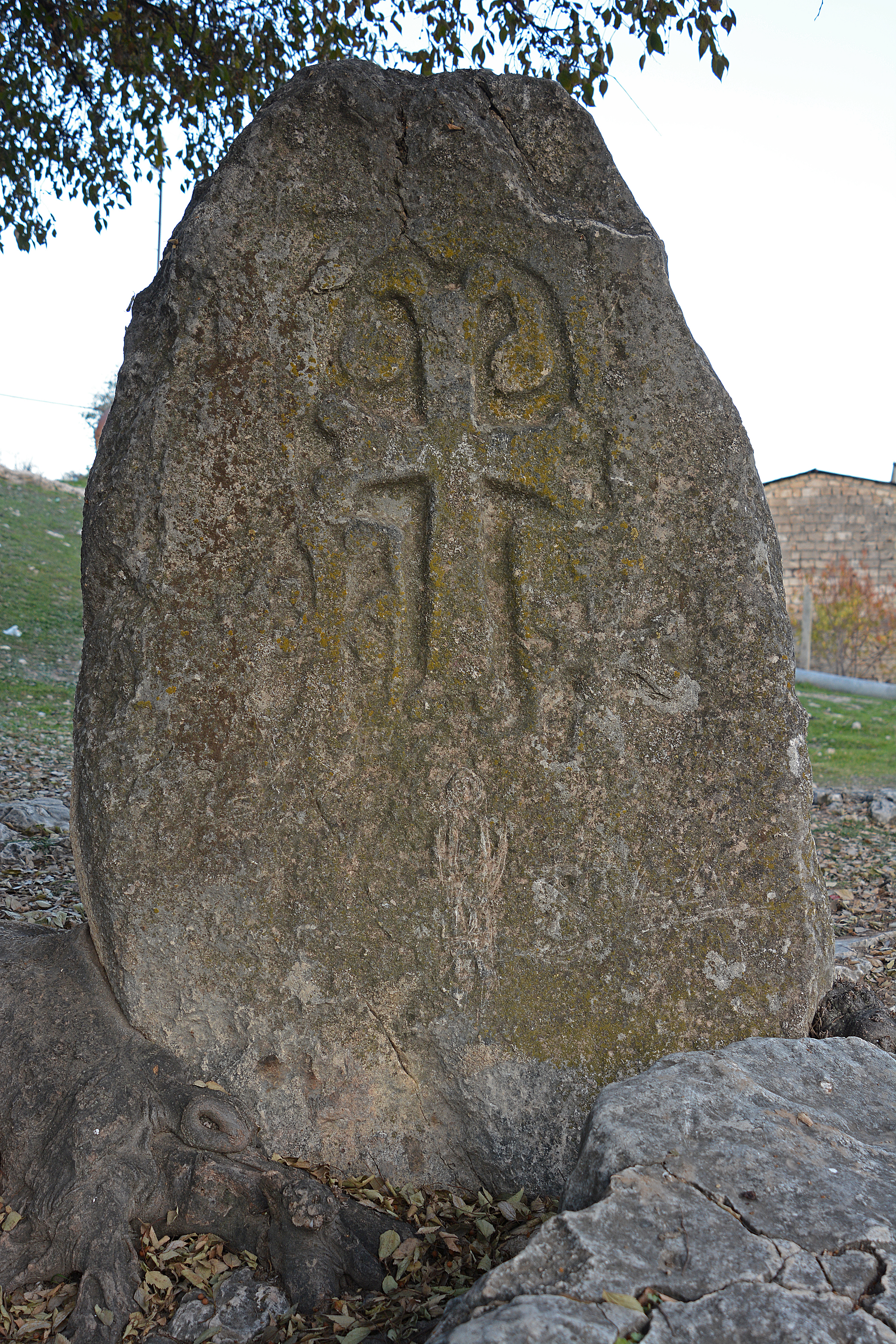 Cross stone in Khnapat